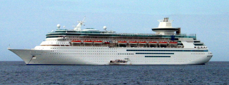 MS Monarch of the Seas anchored off RCL's Coco Cay island